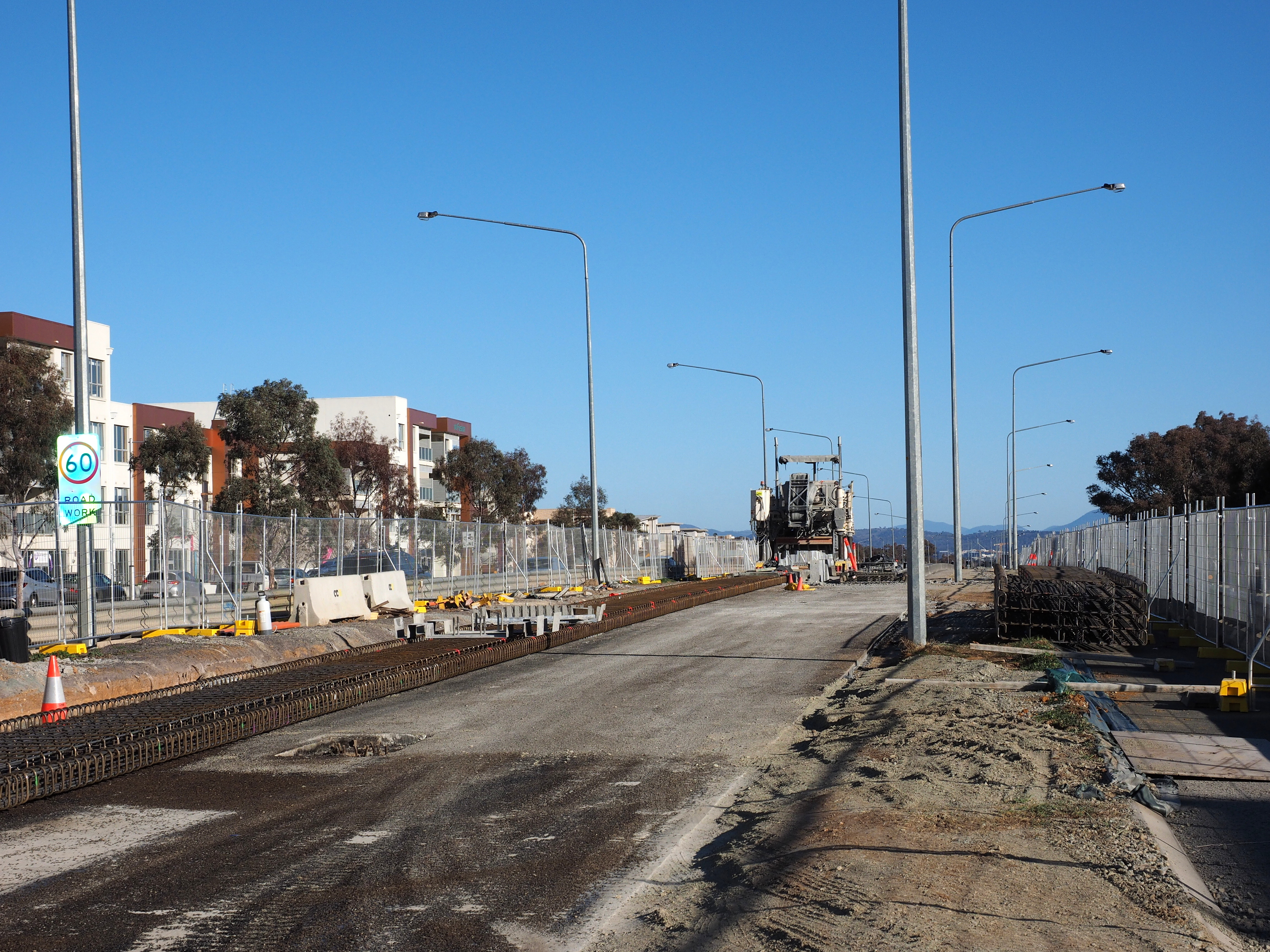 The centre of Flemington Road, Franklin with light rail works underway